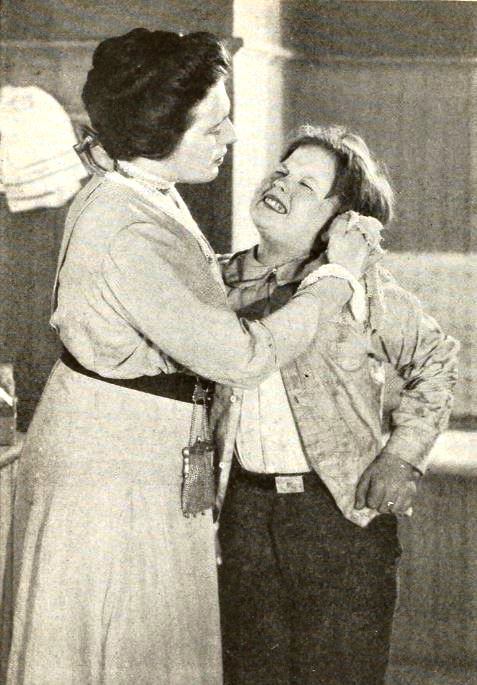 Still from the American drama film The Old Nest (1921) with Mary Alden and Buddy Messinger, from page 34 of the September 1921 Photoplay.